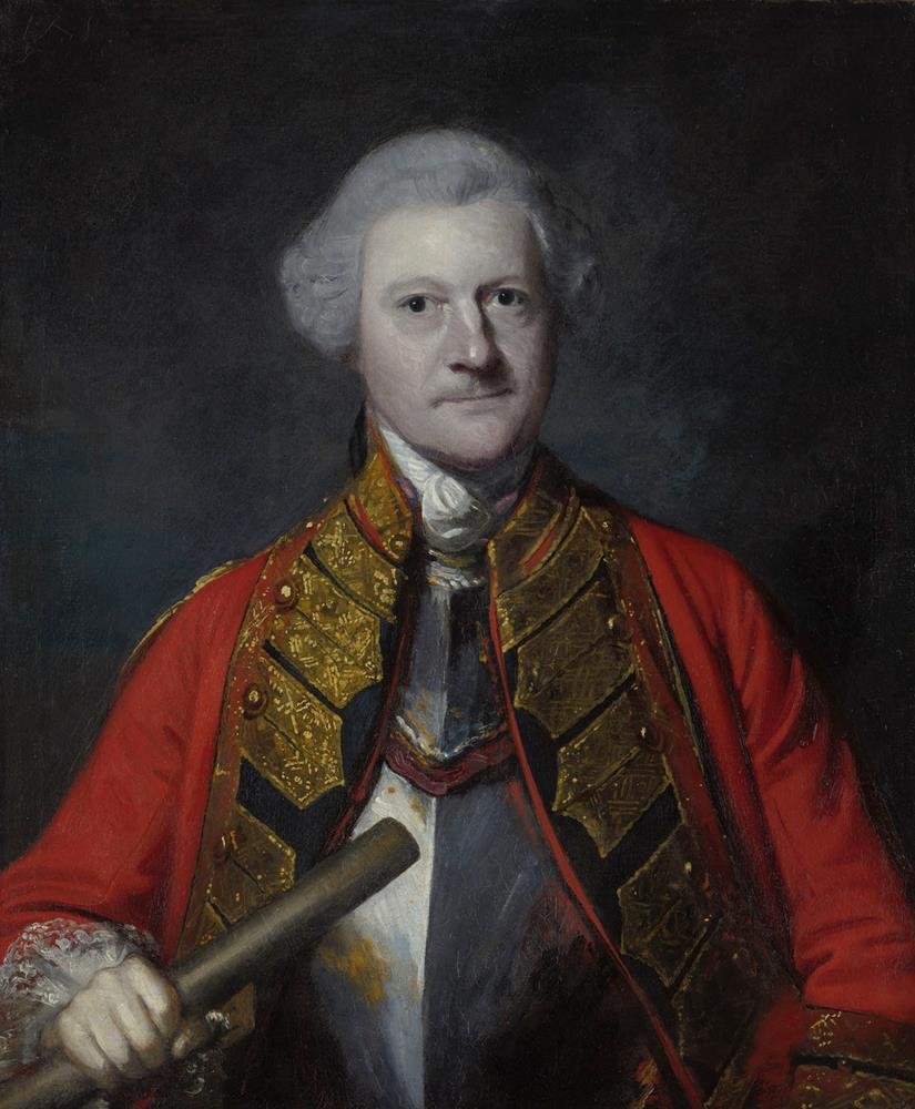 Alexander Dury painted by Joshua Reynolds